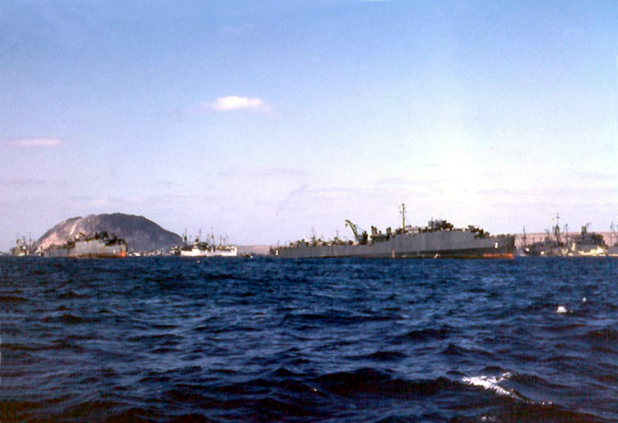 U.S. Navy Landing Ships, Dock (LSD) and other amphibious shipping off Iwo Jima, circa late February 1945. USS Ashland (LSD-1) is at left, with Mount Suribachi beyond. USS Belle Grove (LSD-2) is in the right center foreground.